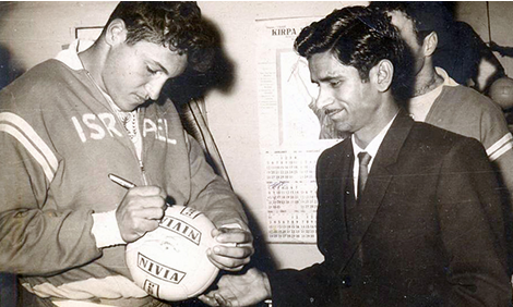 Official ball for Pre-Olympic Volleyball Championship